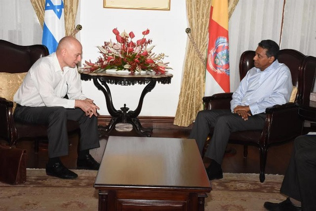 During the discussion on future cooperation, Gendler said Israel can further help Seychelles in the field of agriculture, innovation and medical services (Louis Toussaint).